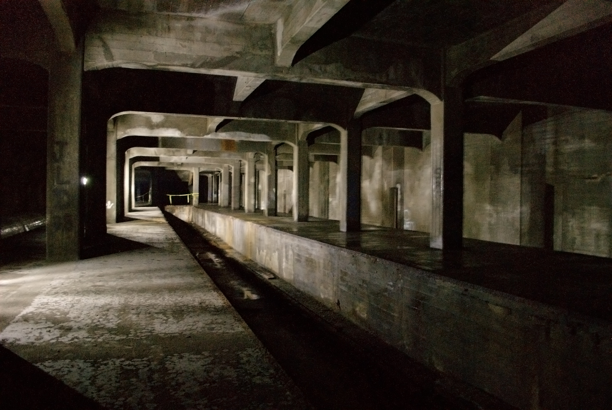 Cincinnati Subway - Race St. Station Abandoned under Central Parkway as part of the Cincinnati Subway System. In the middle is the interurban line which does not allow a train/trolley to travel straight through the station. In the distance and not lit in the photograph is the other equally large half of the station.